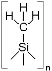 (Vanderveck, free license)